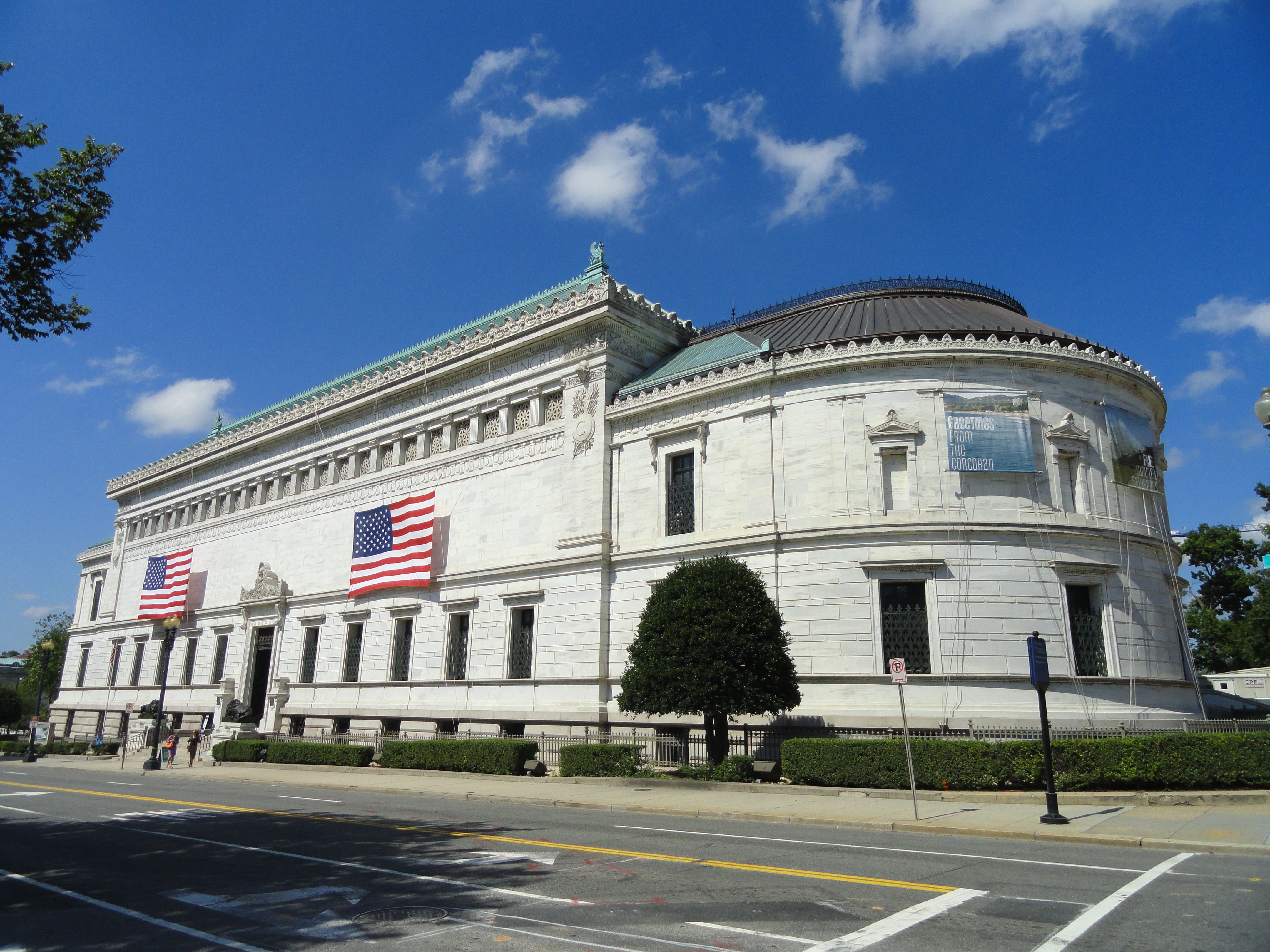 Corcoran Gallery of Art, Washington, D.C., USA.